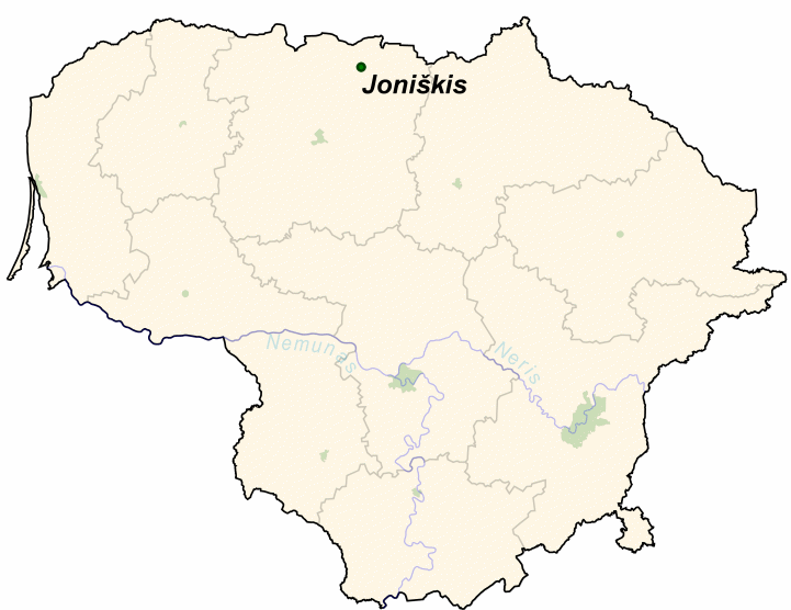 Joniškis on the map of Lithuania